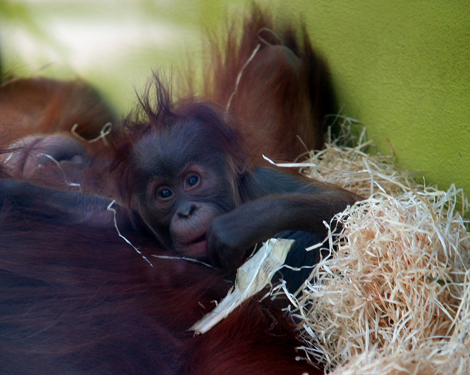 orang utan baby: just born in the Munich zoo